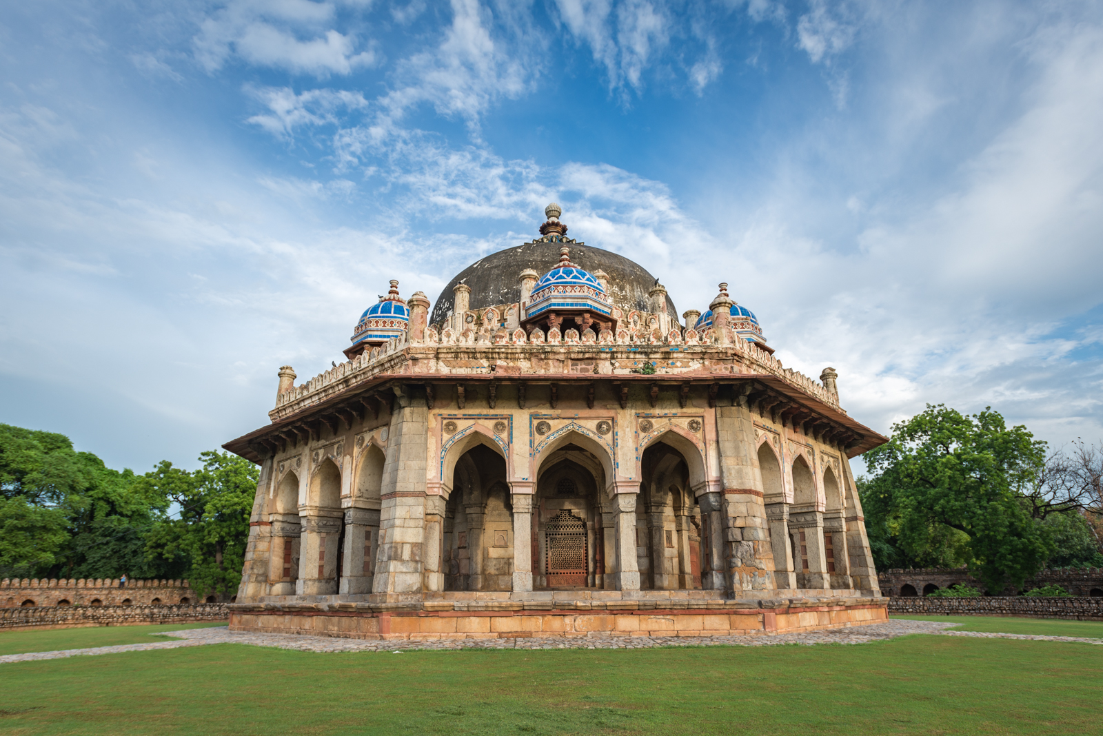 The tomb of Isa Khan Niyazi with its surrounding enclosure walls and turrest garden gateways and mosque (Kh. No. 281 ) bounded on the east by Arab Sarai Kh. No.236 on the west by Kh. No. 283 graveyard of Piare Lal and K.No. 283 of Bddon on the north by Kh. No. 236 of Pandit Brij Vallabh and on the south by Arab Sarai Kh. No. 238.